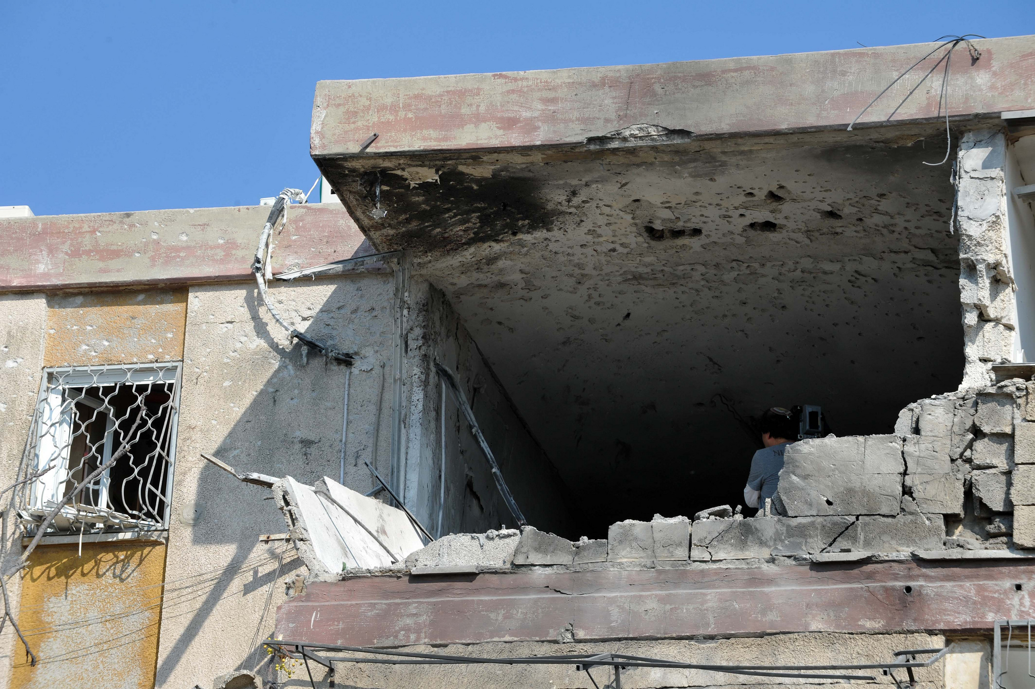 Photos by David Katz / The Israel Project